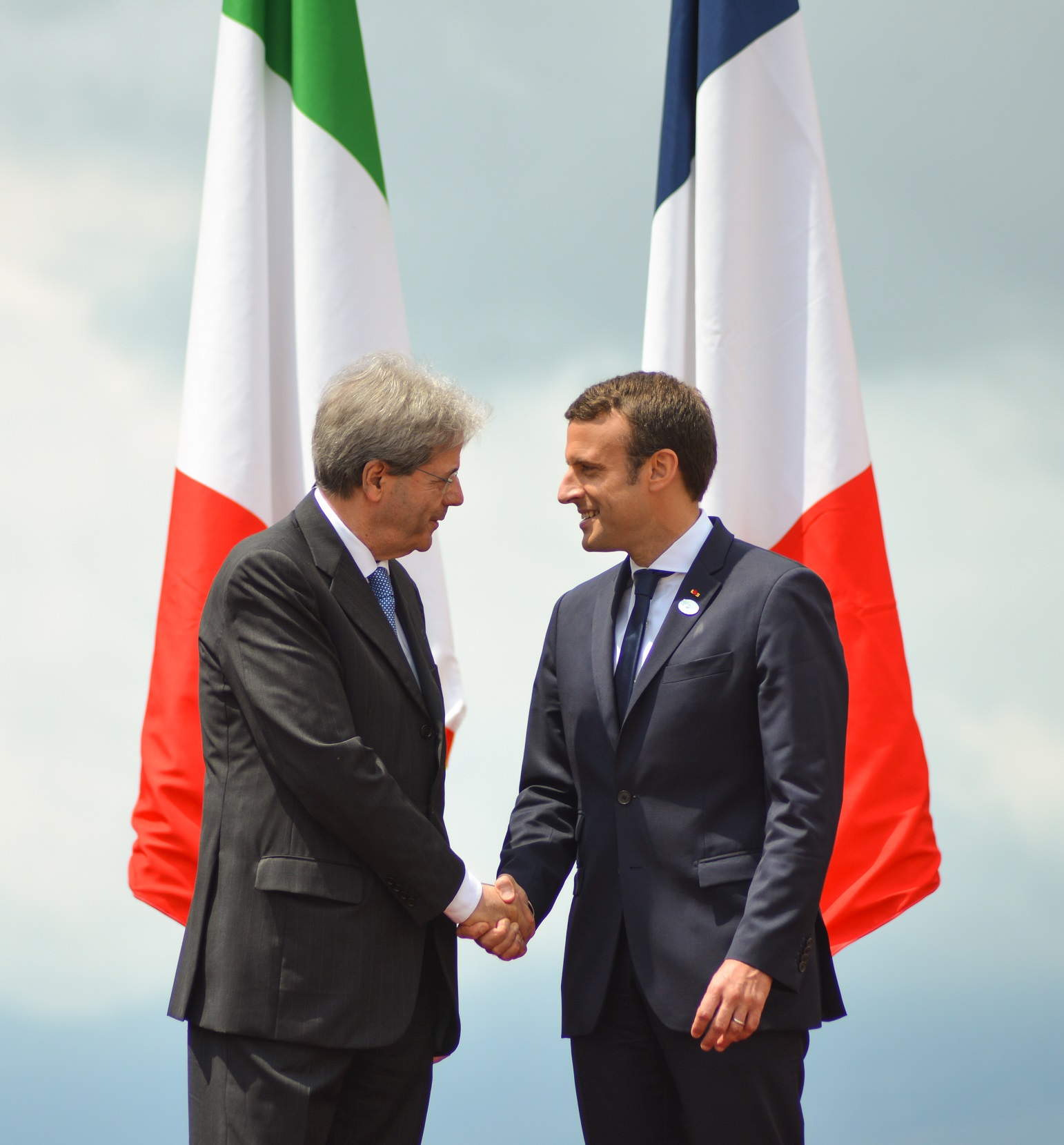 Handshake of Paolo Gentiloni and Emmanuel Macron during the 43rd G7 summit